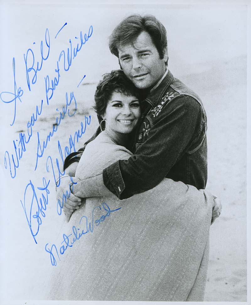 Autographed publicity photo of Natalie Wood and Robert Wagner